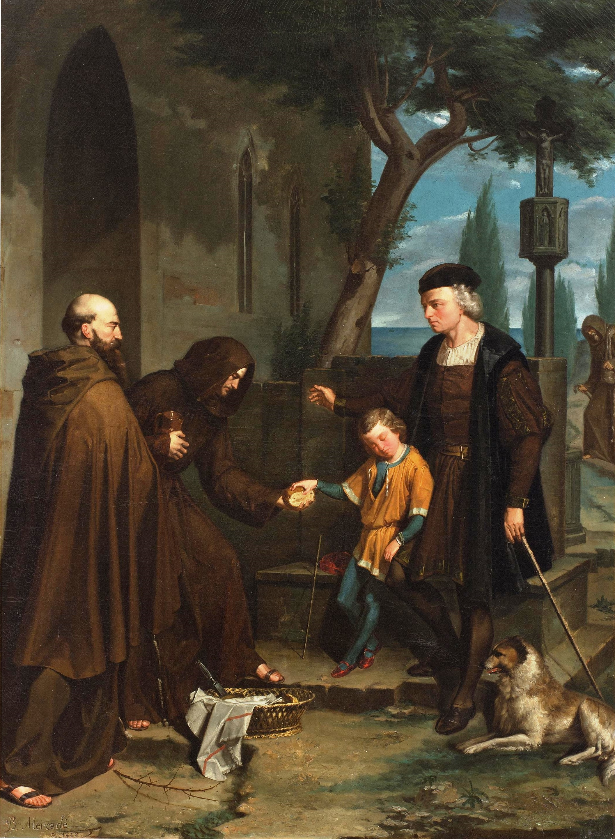 Christopher Columbus at the gates of the monastery of Santa Maria de la Rabida with his son Diego. Painting by Benito Mercade y Fabregas.